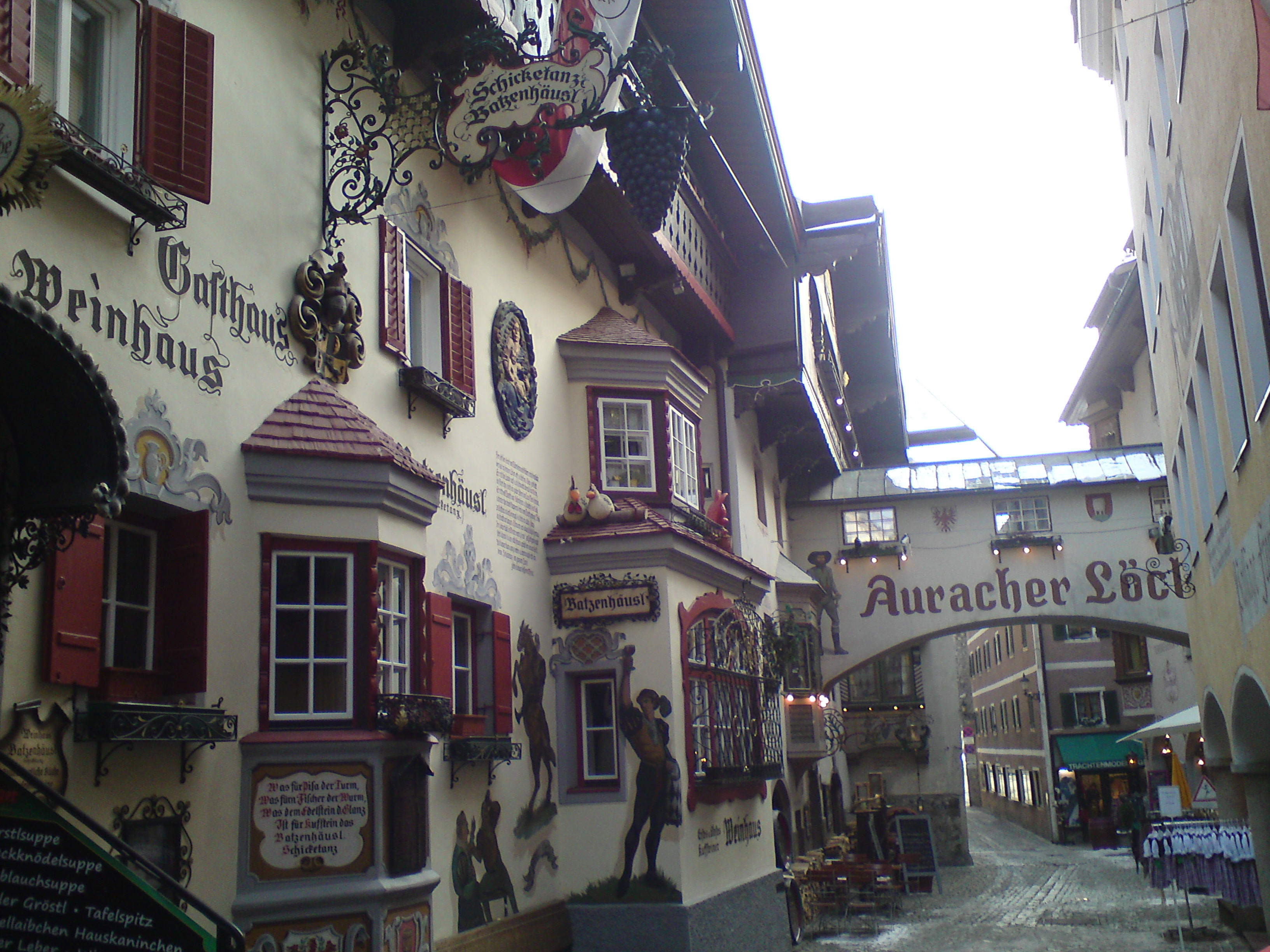 Architecture style typical for Tirol region in Austria.